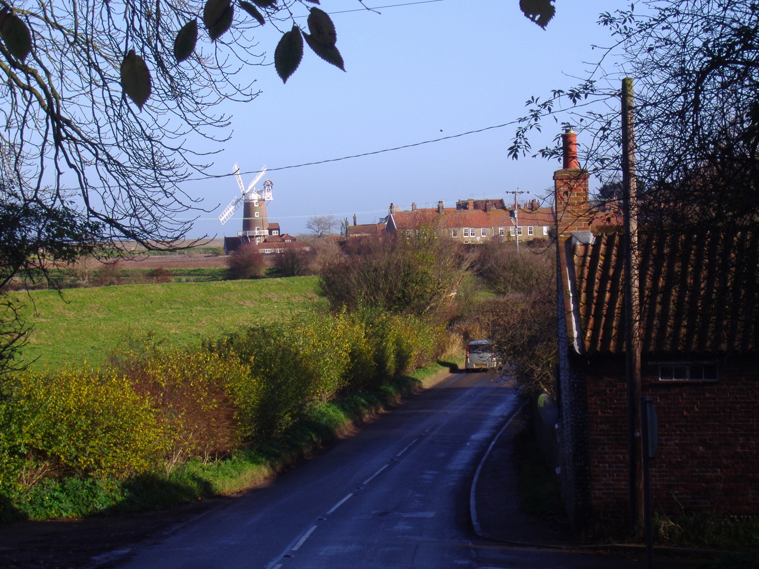 A Digital Photograph of Cley next the Sea Windmill By M Hobbs 29/11/2006